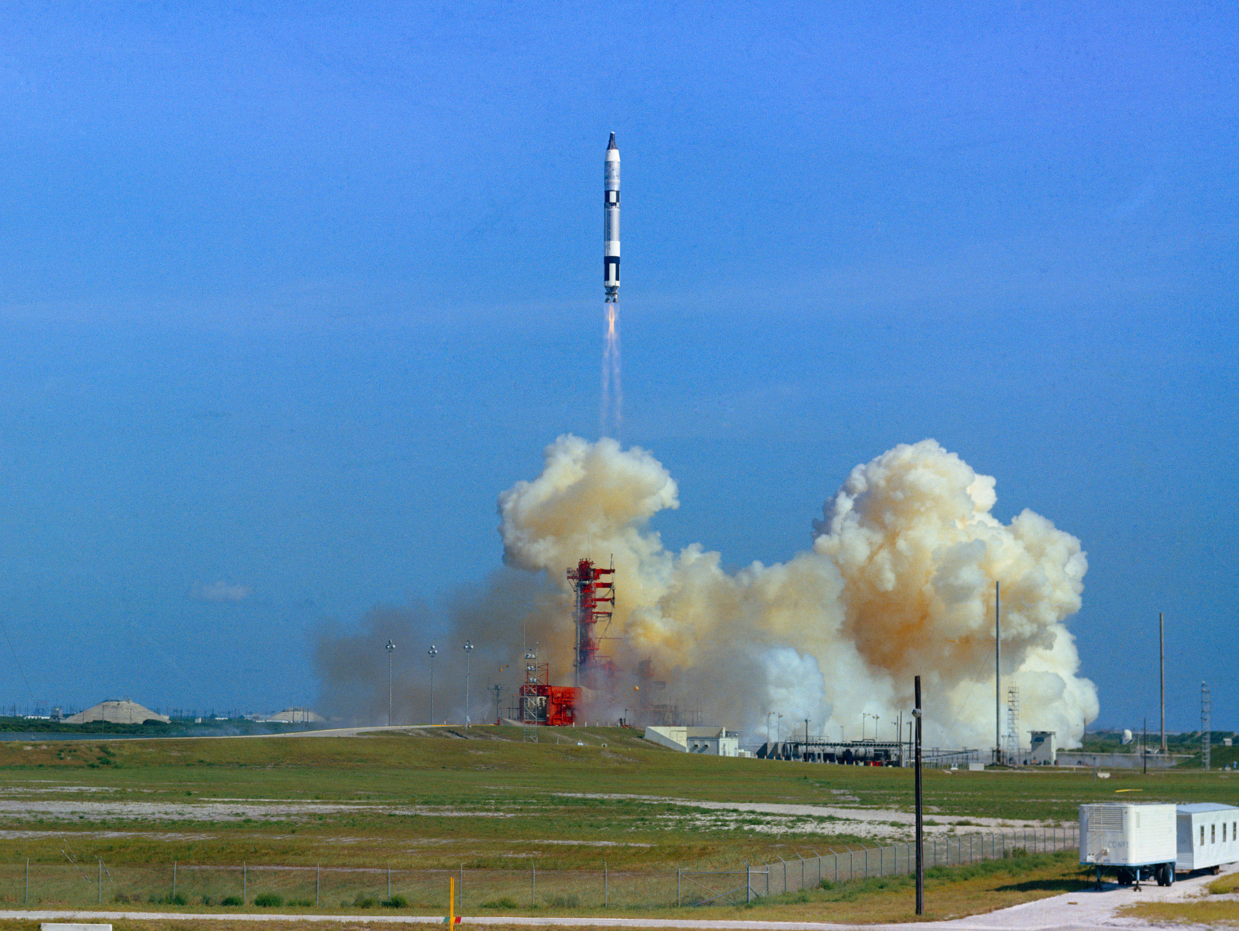 The National Aeronautics and Space Administration launched the Gemini-5 spacecraft from Pad 19 at 9 a.m. (EST) Aug. 21, 1965, on a planned eight-day orbital mission. Astronaut L. Gordon Cooper Jr. was the command pilot; and astronaut Charles Conrad Jr. was the pilot. A full duration mission will achieve the longest manned spaceflight to date.